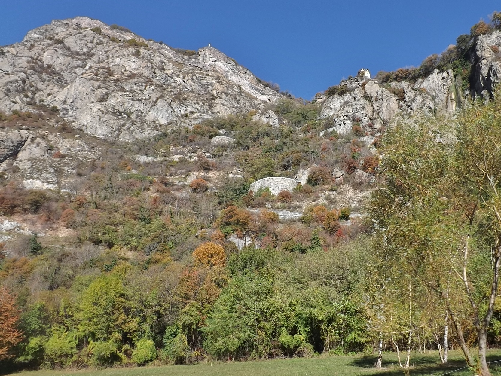 Sight, in autumn, of the lacets de Montvernier road bends, from Pontamafrey (below) to Montvernier (above), in the Maurienne valley, in Savoie, France.